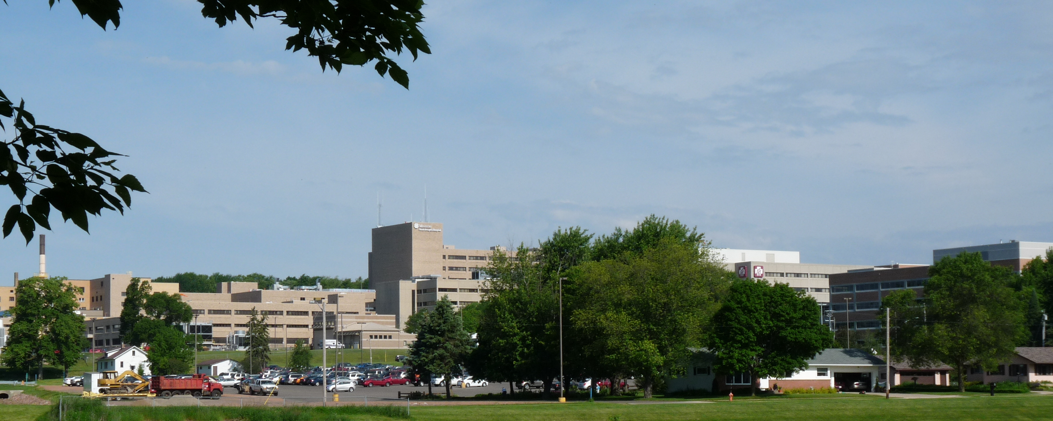 The medical complex on the north side of Marshfield, Wisconsin consists of St. Josheph's Hospital and the Marshfield Clinic.